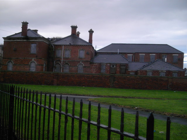 Derelict Orphanage. How's about an abandoned Victorian Orphanage? Built on Town Moor in 1861 as the 'New Orphan Asylum'